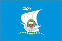 Flag of Kaliningrad